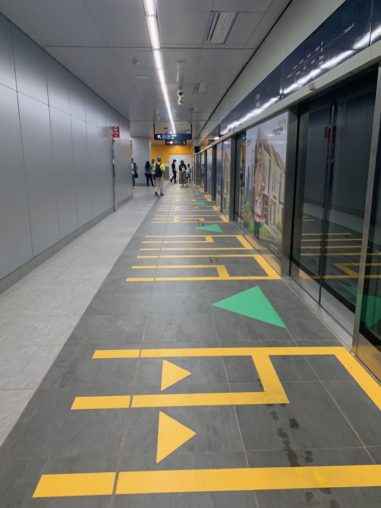 Platform of the Istora Mandiri station on the Jakarta MRT